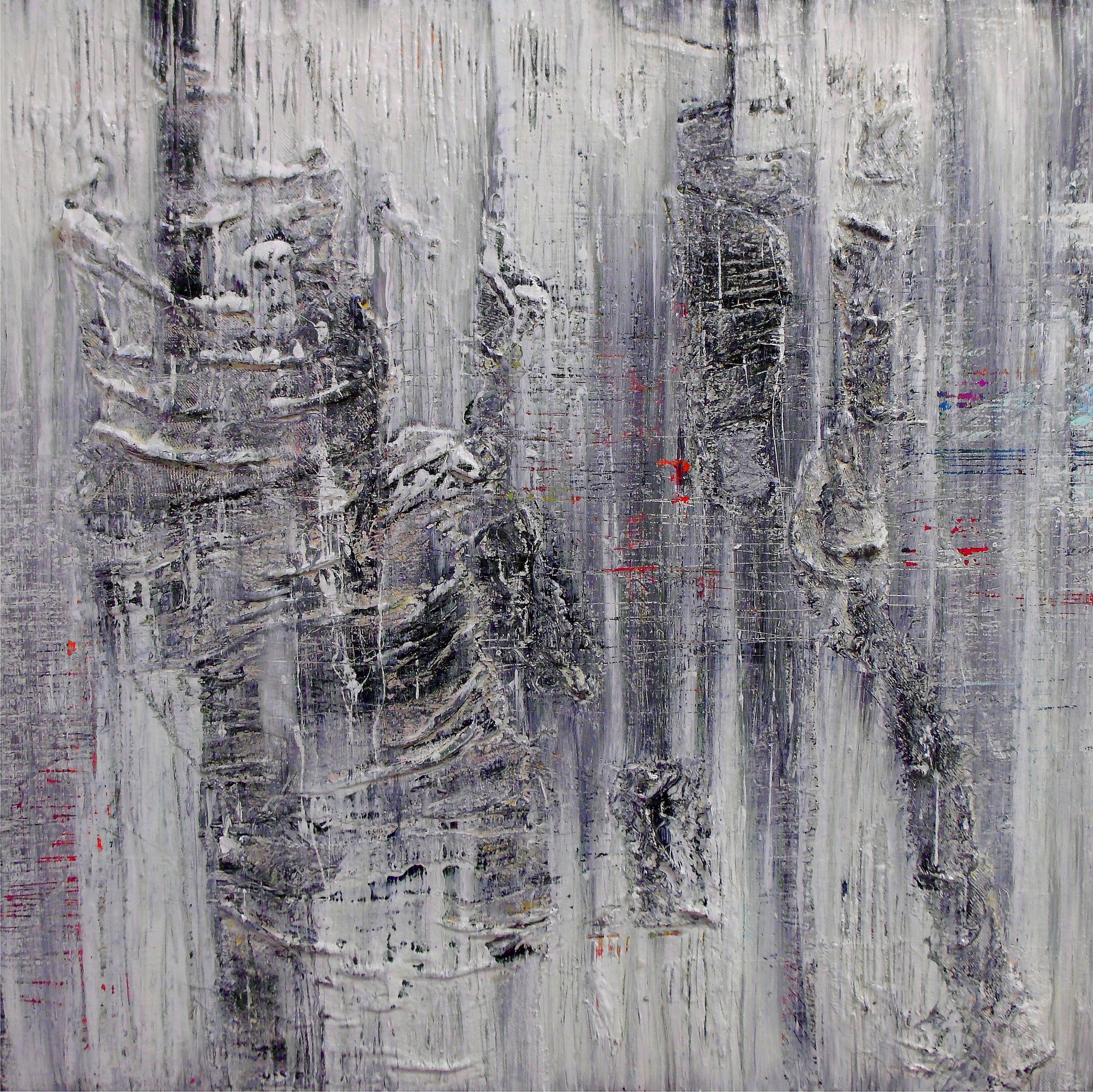 Irregularity - mixed media, painting on canvas. 90 x 90 cm. 2015